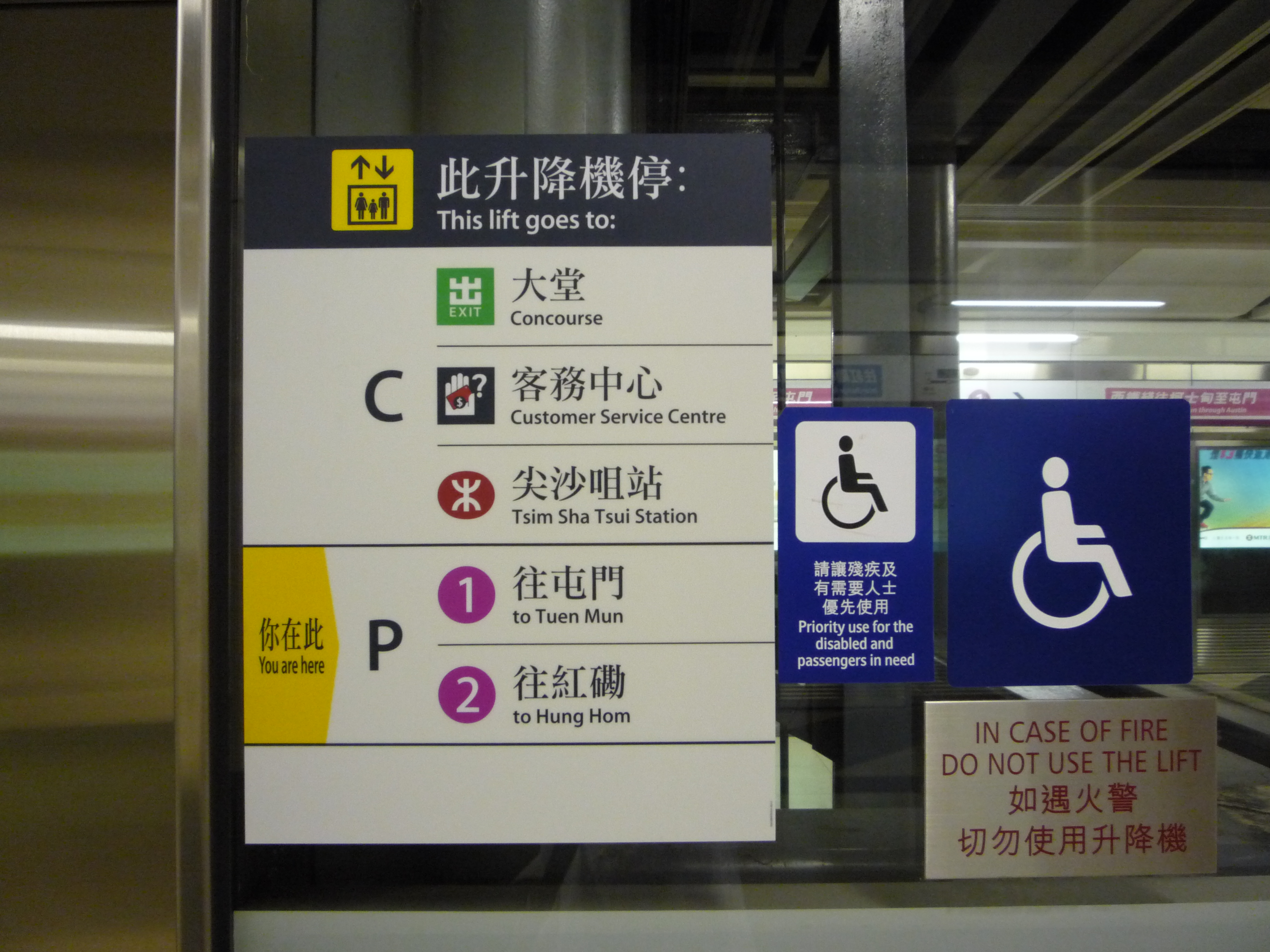 MTR East Tsim Sha Tsui Station lift No.ZL5